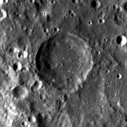 Dewar crater LROC image